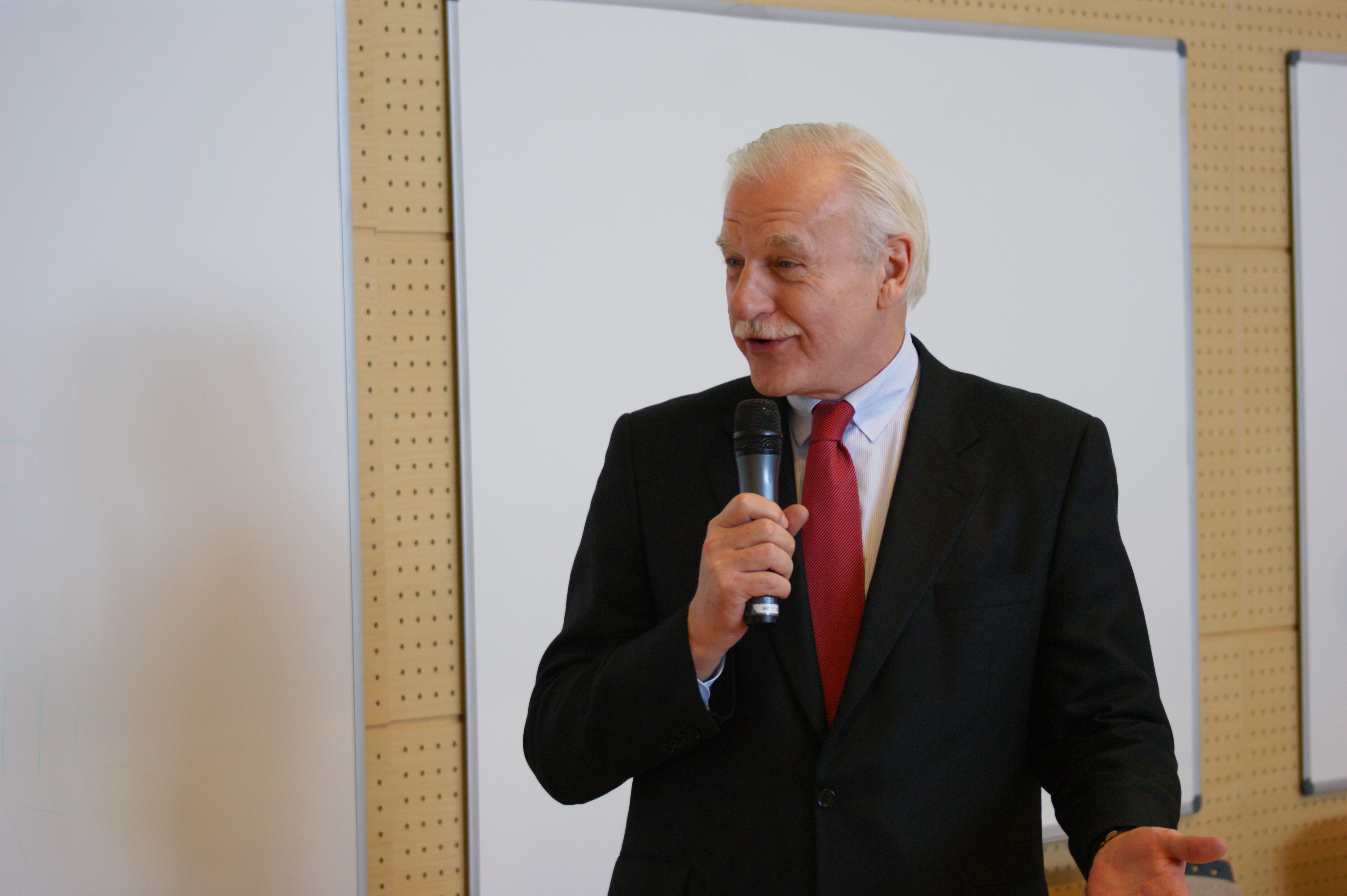 Andrzej Olechowski, Polish politician and an independent candidate in the 2010 Polish presidential election, during his visit at the Faculty of Political Science and Journalism of the Adam Mickiewicz University in Poznań on 2010-03-04.